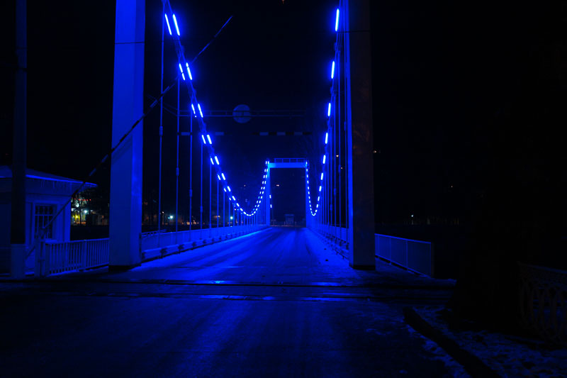 Bridge of Beauty (Georgian: სილამაზის ხიდი) over Kura River in Borjomi